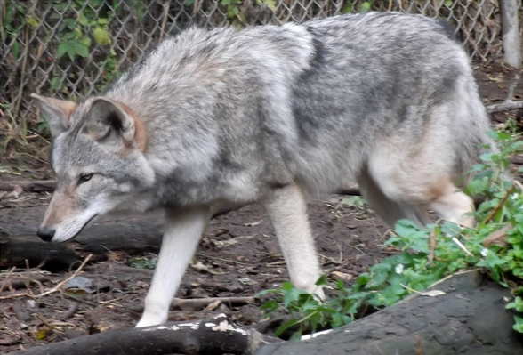 A side view of a western coywolf hybrid